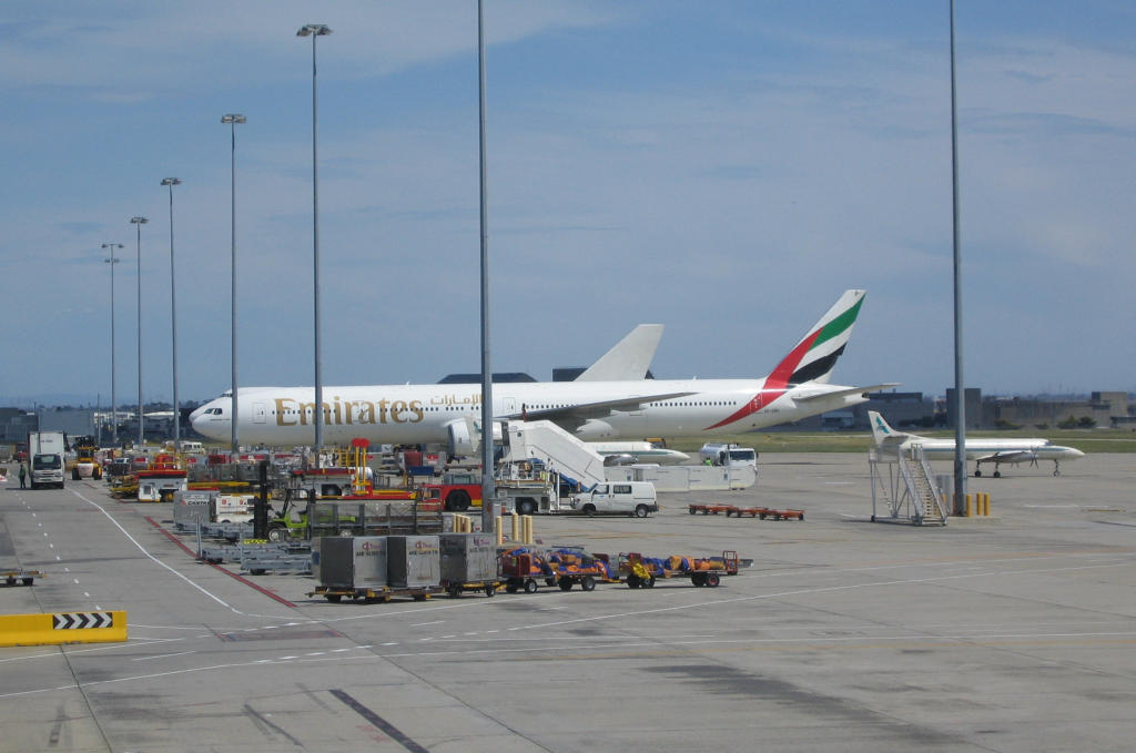 Aircraft on Melbourne Airport's southern cargo apron